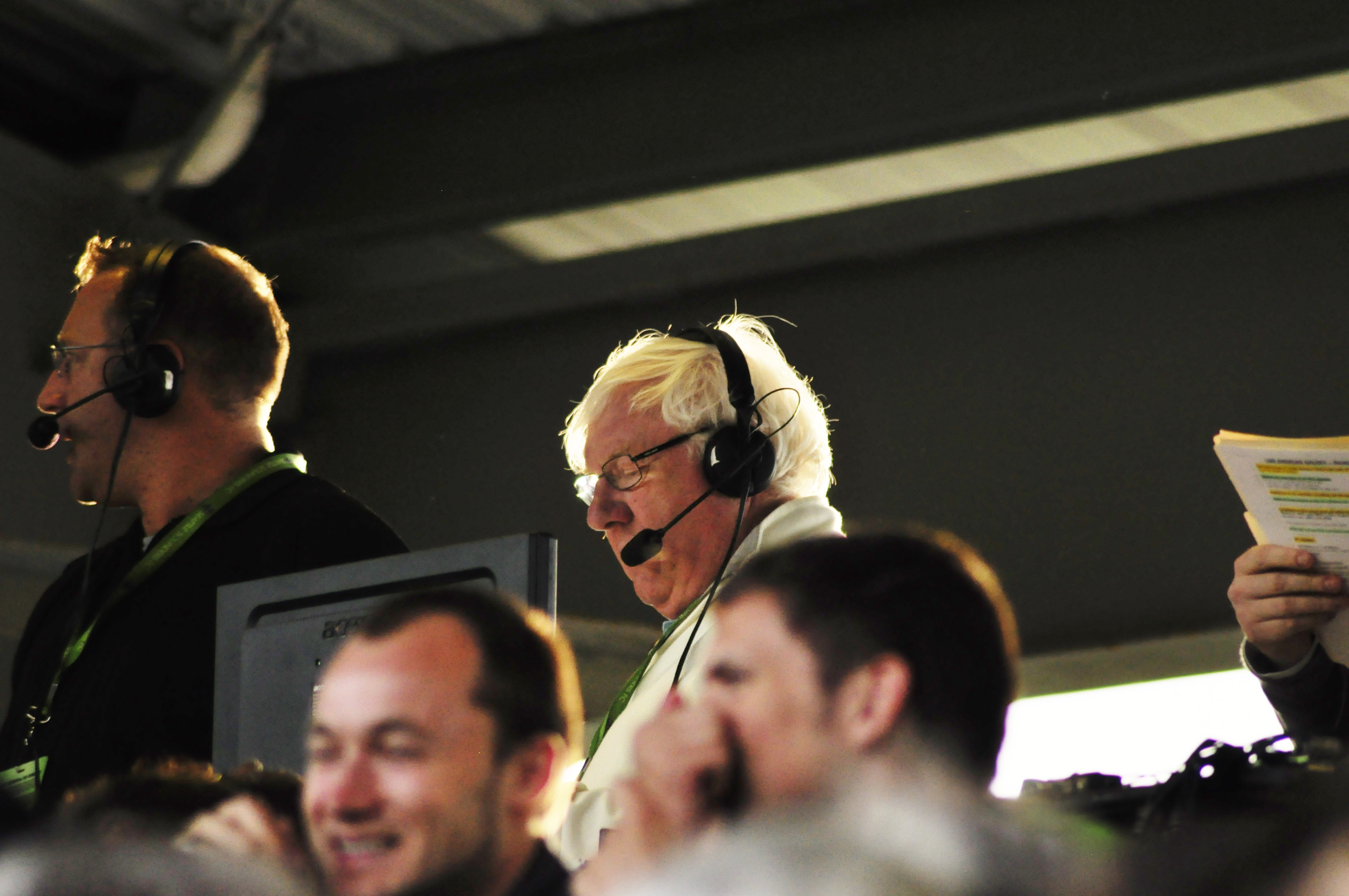 Alan HInton, broadcaster for Seattle Sounders FC.